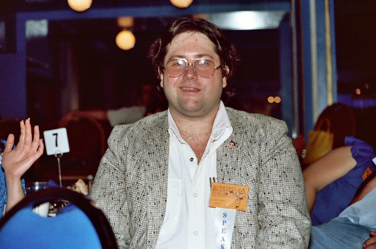 1982 San Diego Comic-Con International. Scanned from the original 35MM film negative. NOTE: Permission granted to copy, publish, broadcast or post any of my photos, but please credit "photo by Alan Light" if you can. Thanks.